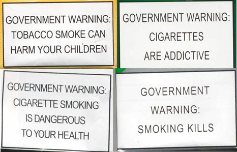 Warning messages on Philippine tobacco packaging.